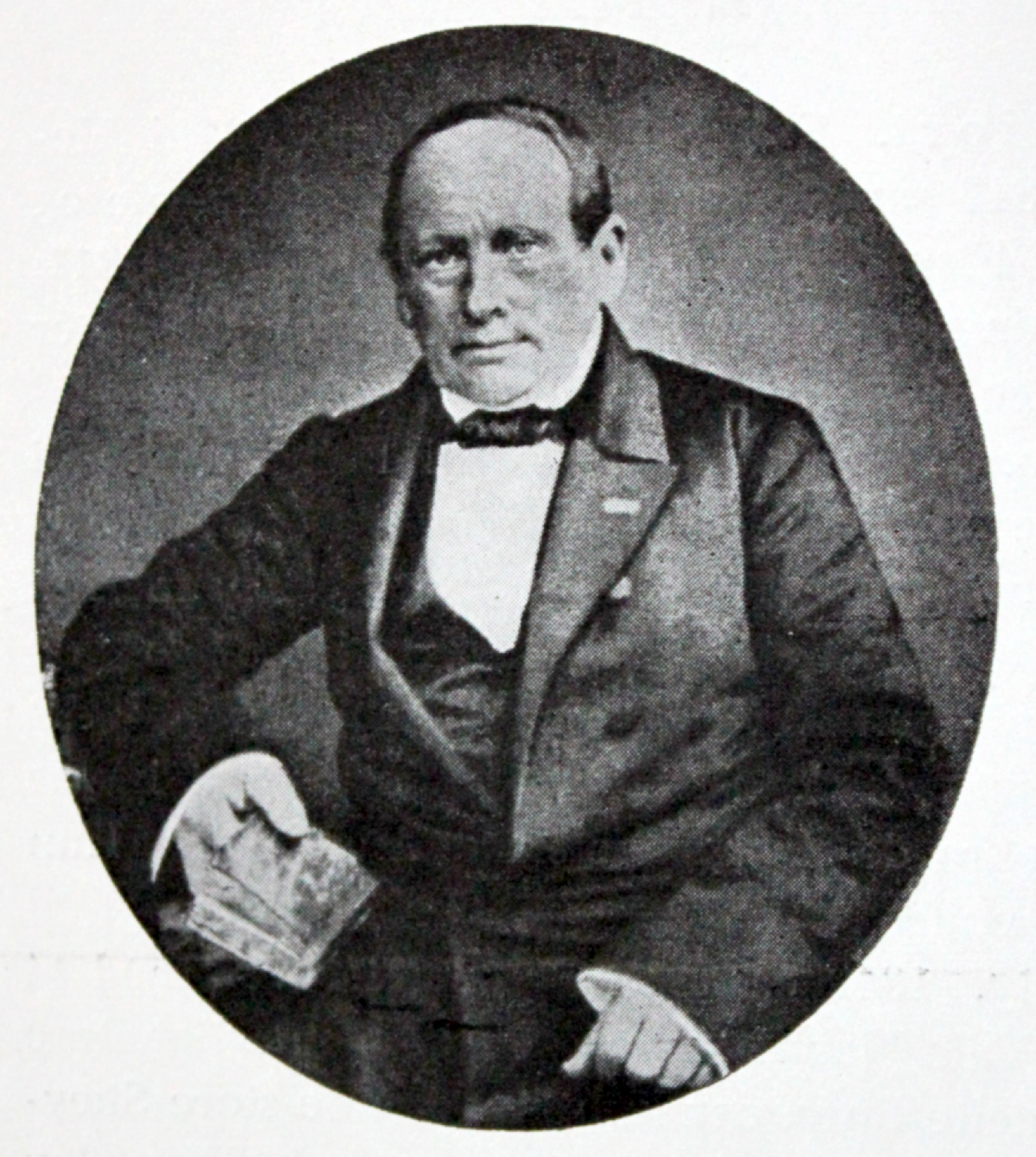 Claus Manicus (September 12, 1795 Gammelbyskov - September 14, 1877 Copenhagen) was a physician, editor and a nationalist who was involved in the Danish case of Schleswig-Holstein in the mid 1800's.